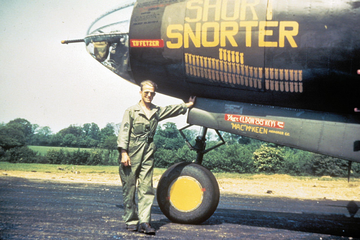 A ground crewman of the 387th Bomb Group with a B-26 Marauder (FW-T, serial number 41-31900) nicknamed "Short Snorter" (Dorothy S). Written on slide casing: '387 BG.'